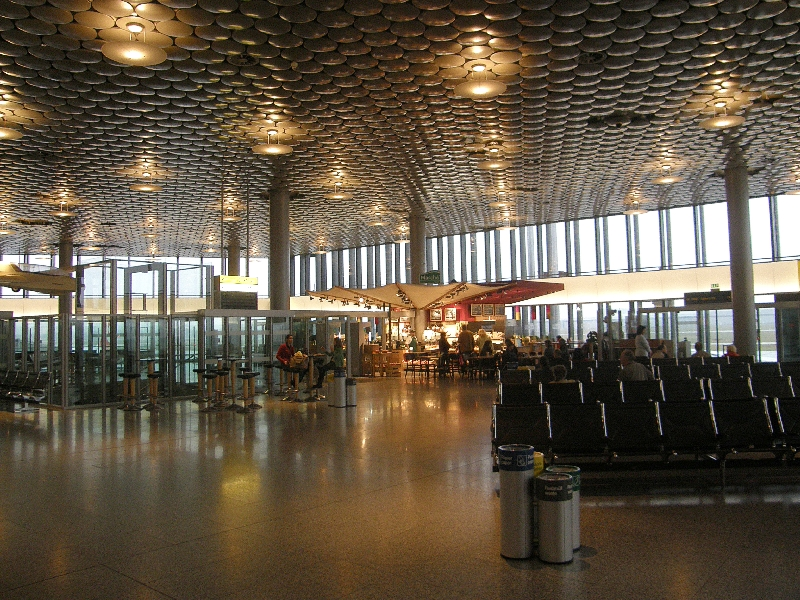 Interior of Hannover Airport